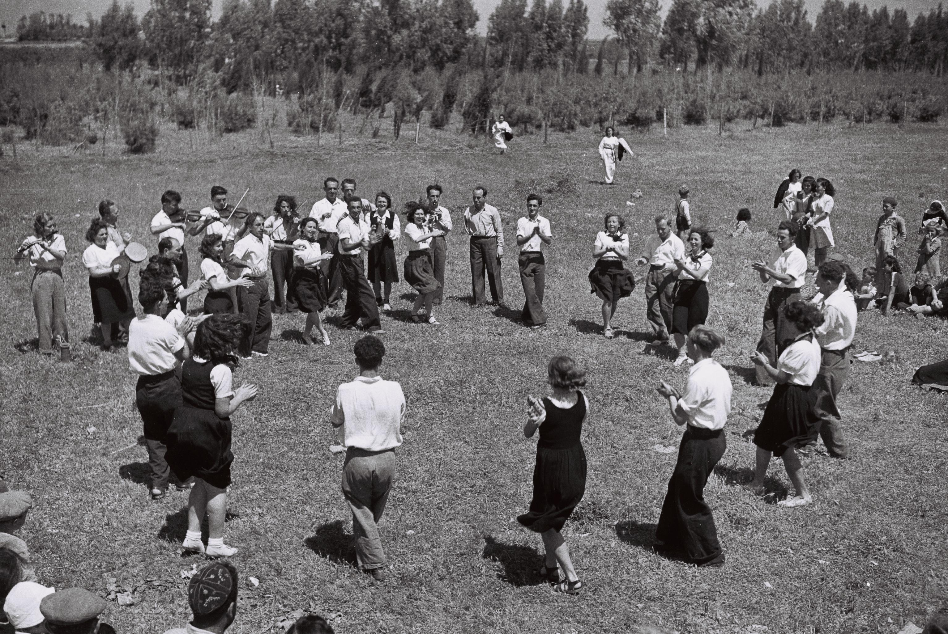 A FOLK DANCE TROUPE PERFORMING IN KIBBUTZ DALIA. להקת מחול מופיעה בקיבוץ דליה.